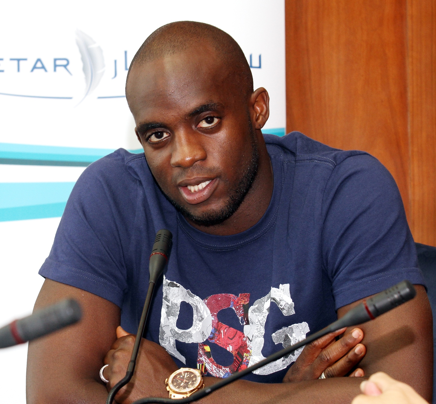 Paris St Germain's Malian player Mohamed Sissoko during a treatment visit to Aspetra, Qatar's orthopaedic and sports medicine hospital. Photo by Vinod Divakaran.